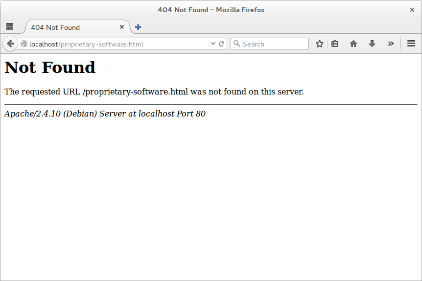 HTTP 404 error generated by Apache HTTP Server in a Debian server. Displayed in Mozilla Firefox 39 with GNOME.